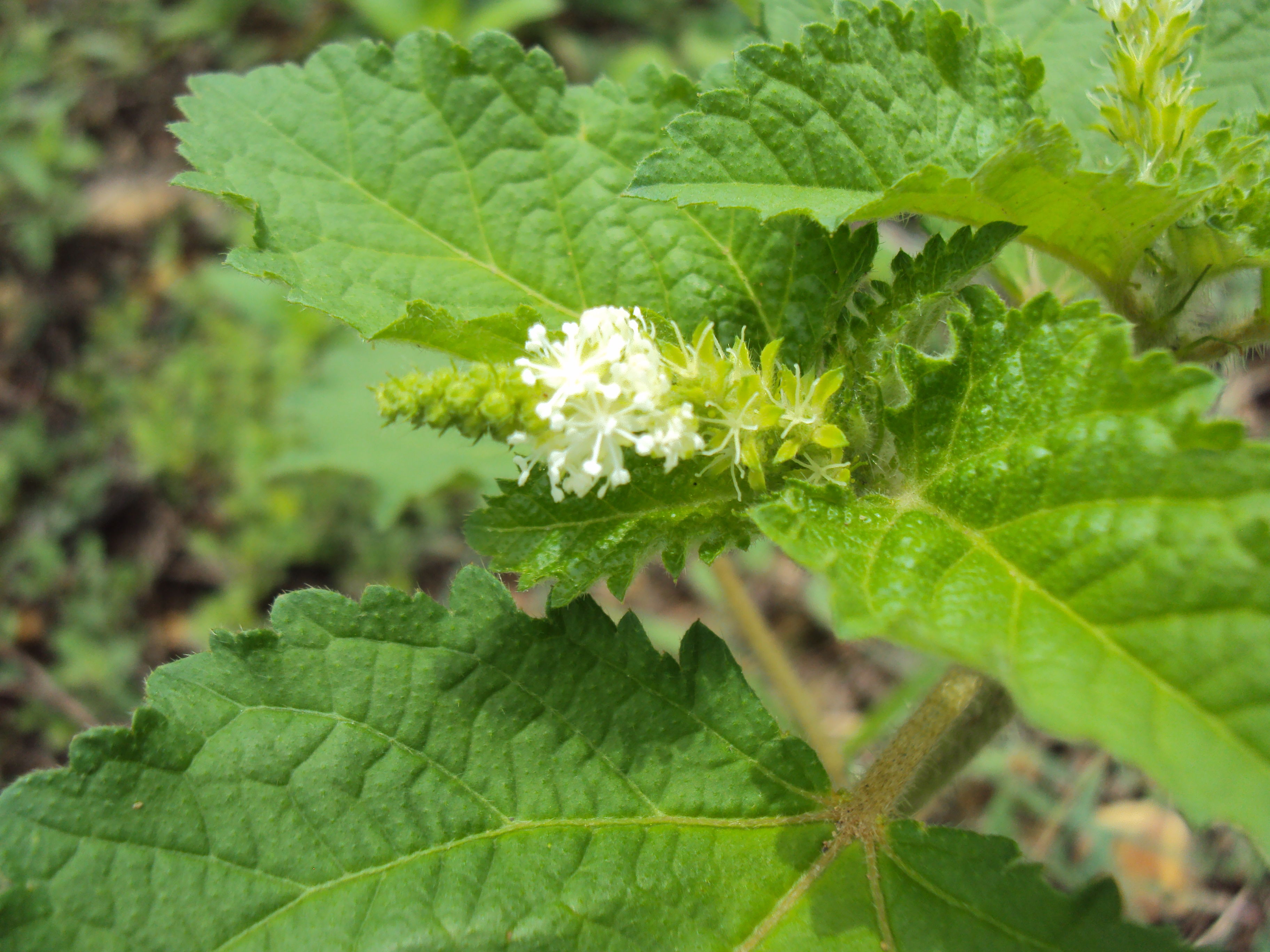 Photos from 2014 by Vinayaraj